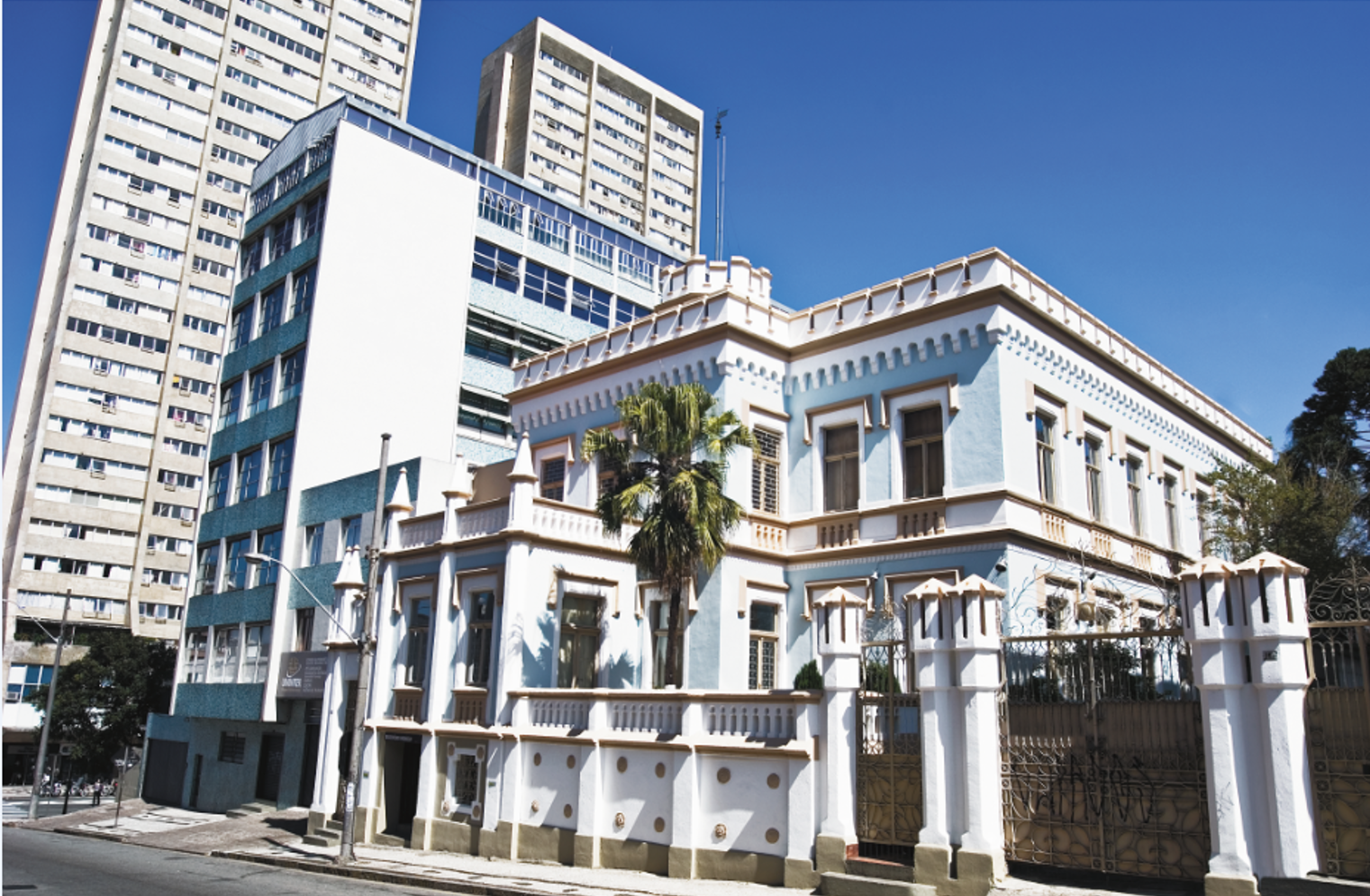 Uninter - Campus Divina